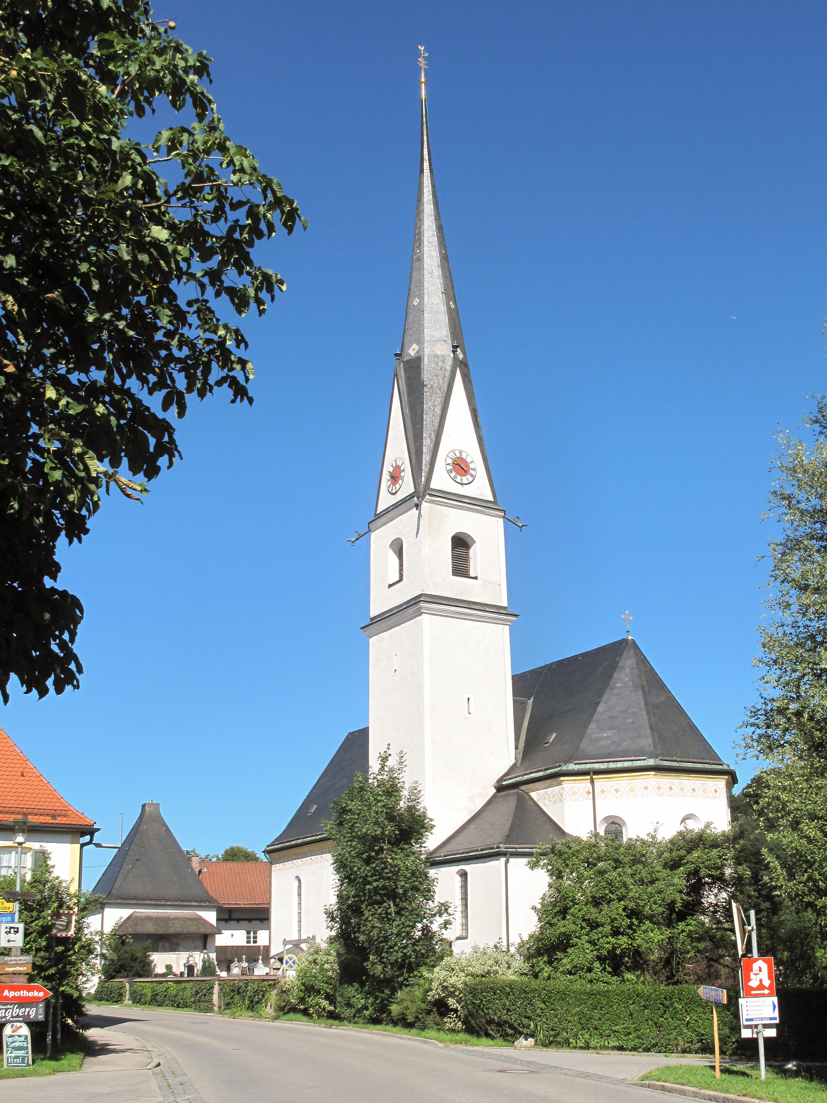 Frasdorf, church: die Sankt Margareta Kirche